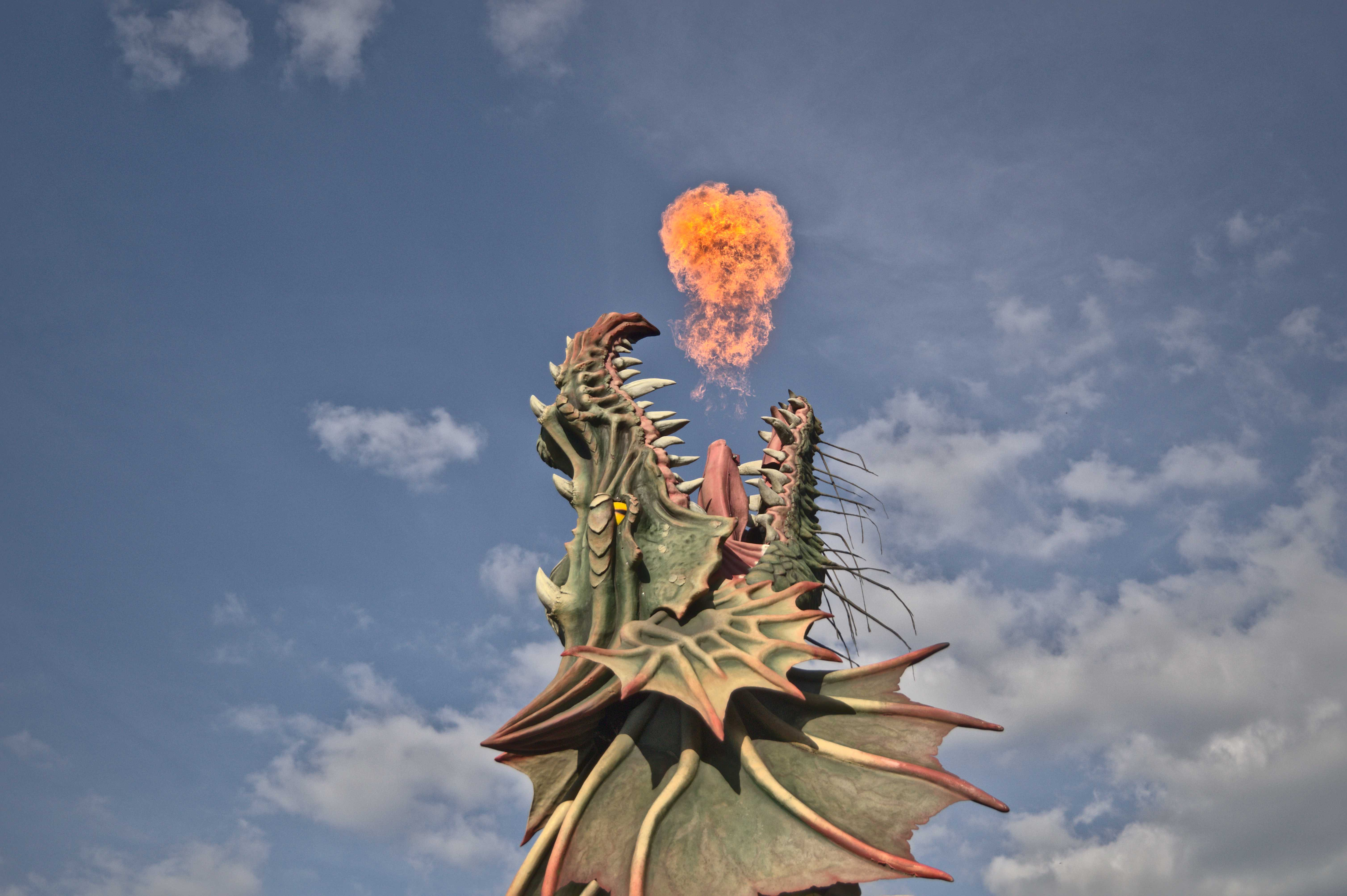 The dragon on George and the dragon in the Efteling